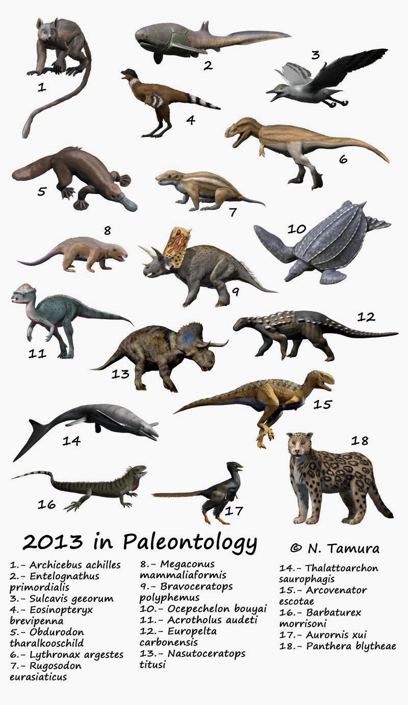 2013 in Paleontology A selection of species described in 2013...